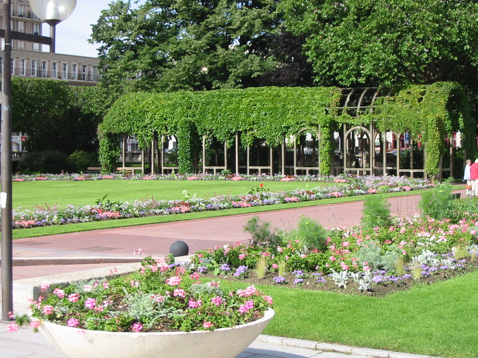 Le Havre (France, Norrmandy): former garden of town hall, pergolas destroyed in 2010.